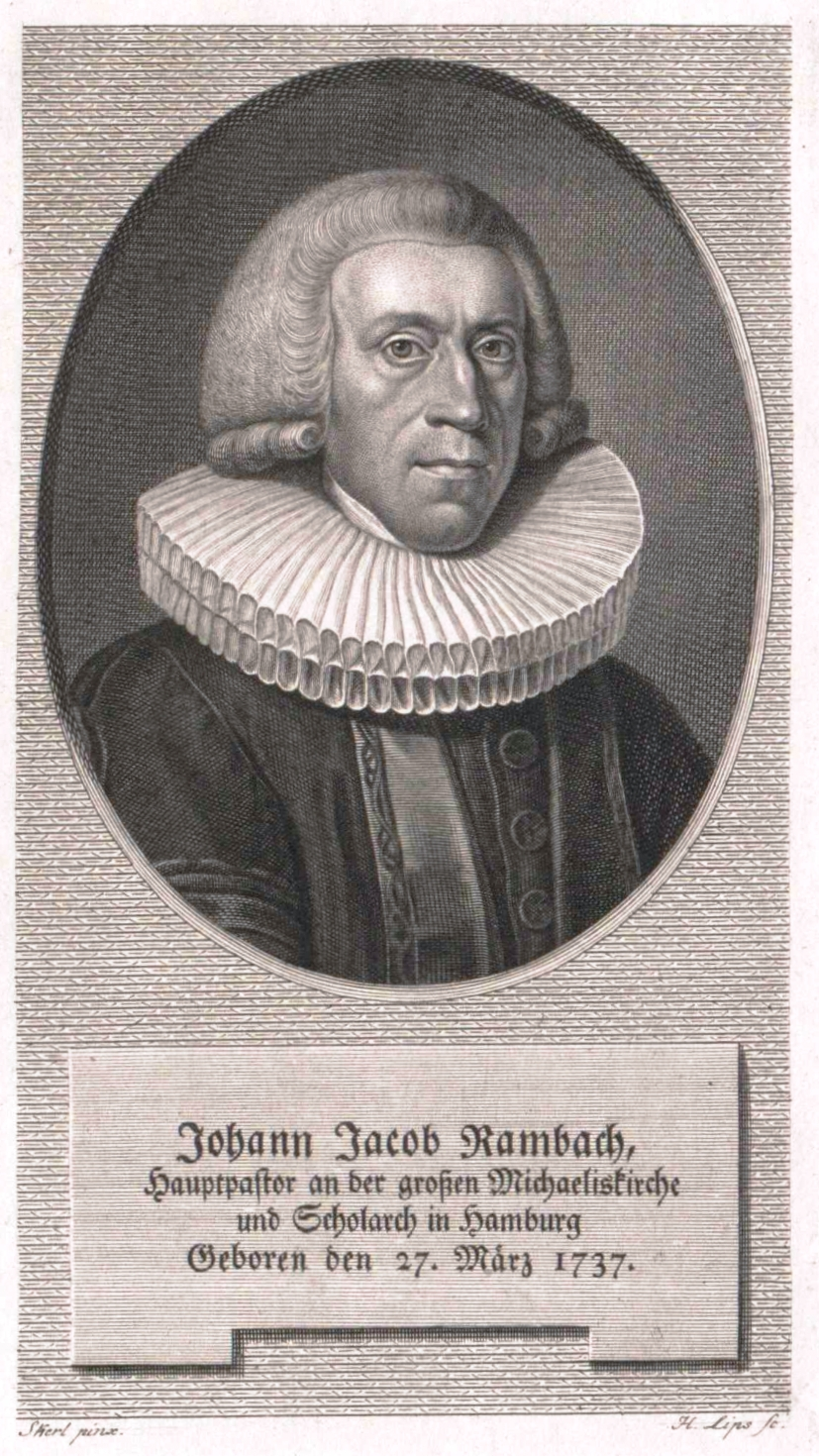 Johann Jacob Rambach (1737-1818) Protestant theologians from Germany